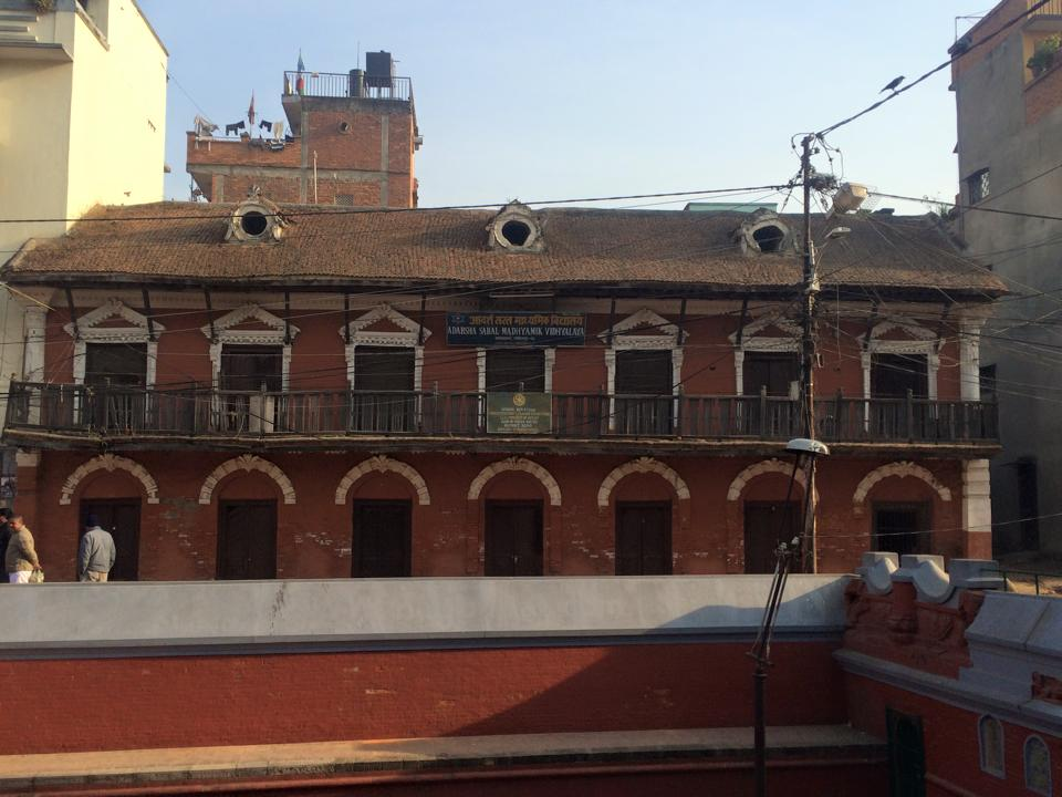 अादर्श सरल माध्यमिक विद्यालय